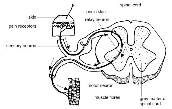 Anatomy and physiology of animals Relation btw sensory, relay & motor neurons.